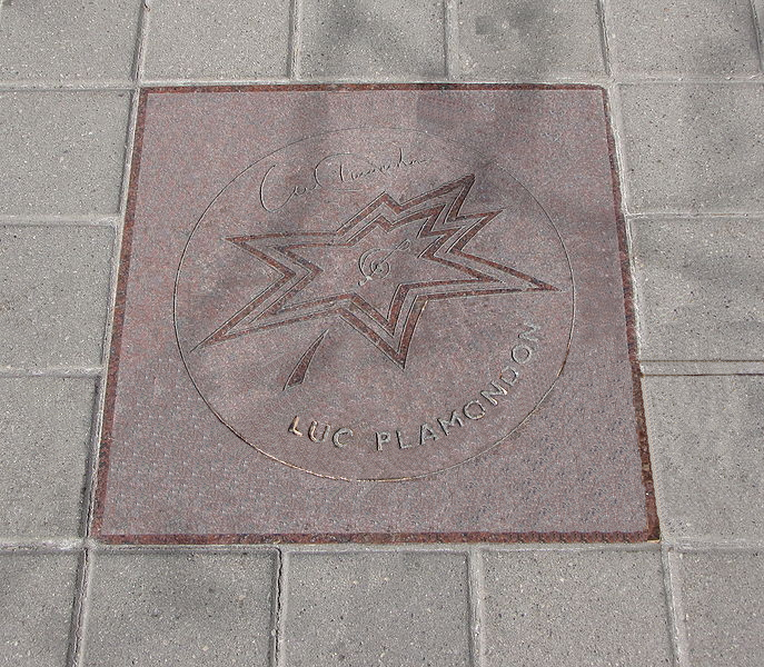 Luc Plamondon's star on Canada's Walk of Fame.